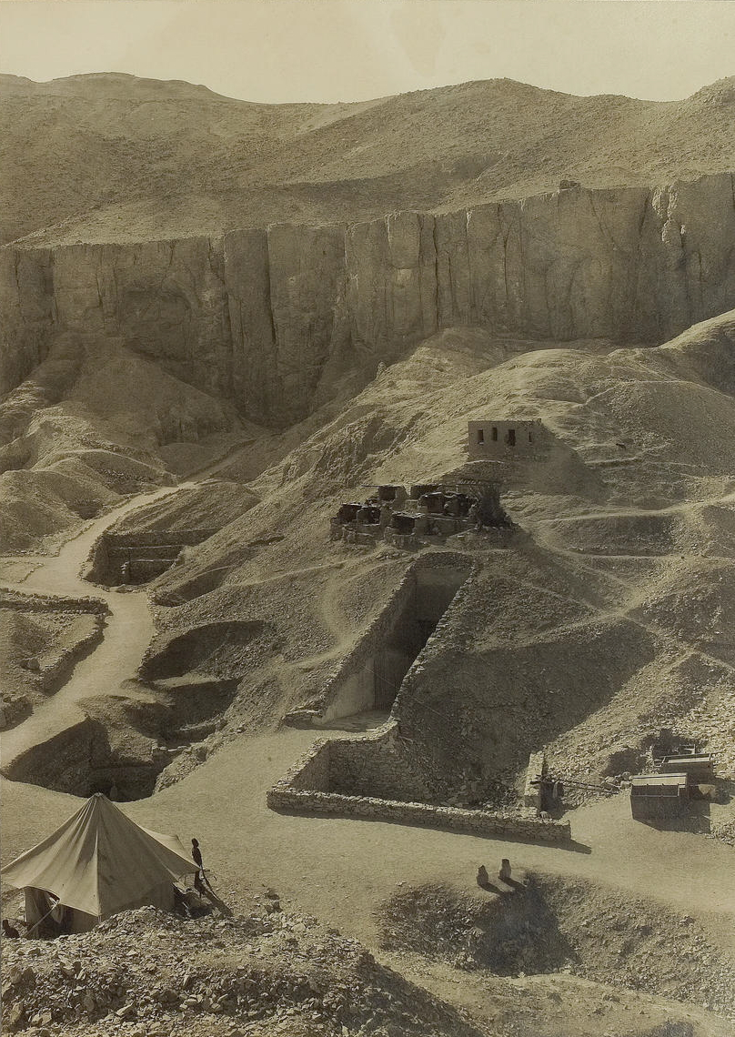 Harry Burton: Tutankhamun tomb photographs: a photographic record in 5 albums containing 490 original photographic prints ; representing the excavations of the tomb of Tutankhamun and its contents. Vol. 1